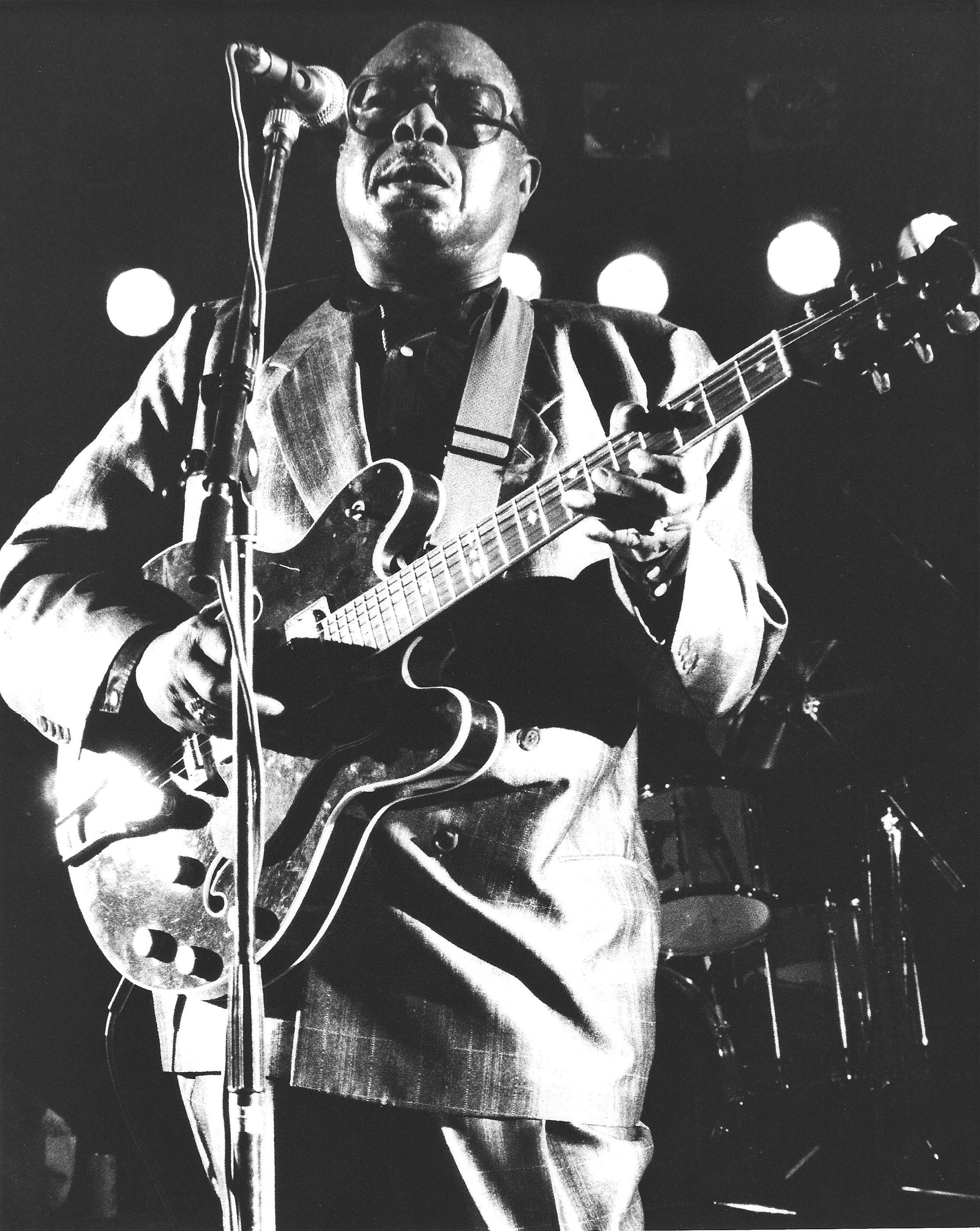 Redcar 1991 Rogers Playing Guitar